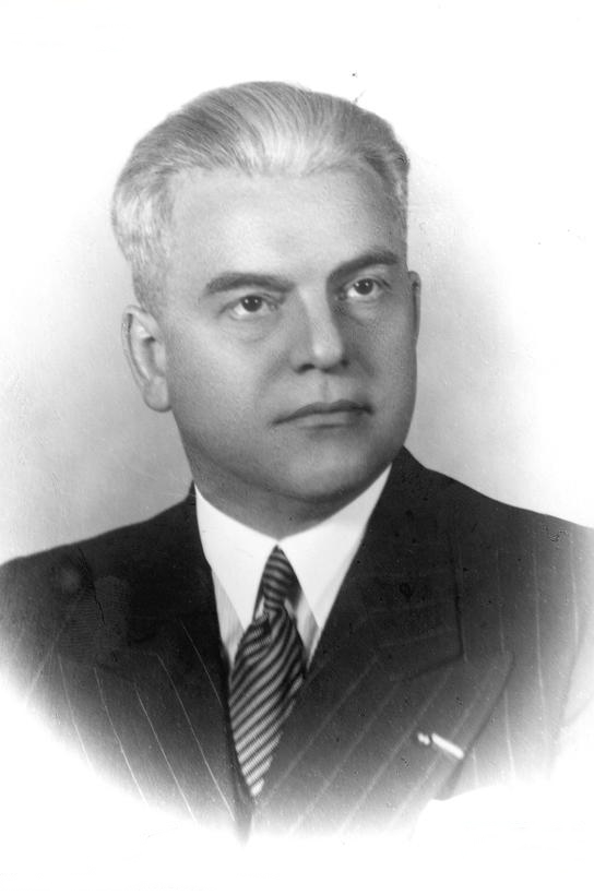 Juliusz Ulrych, minister of Communications. Portrait photography.